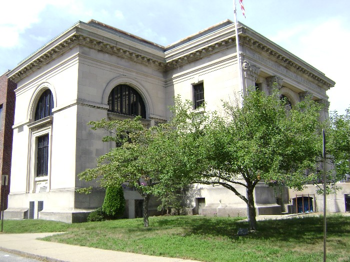 Public Library, Taunton, Massachusetts